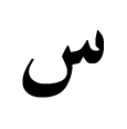 Letter seen of the arabic abjad